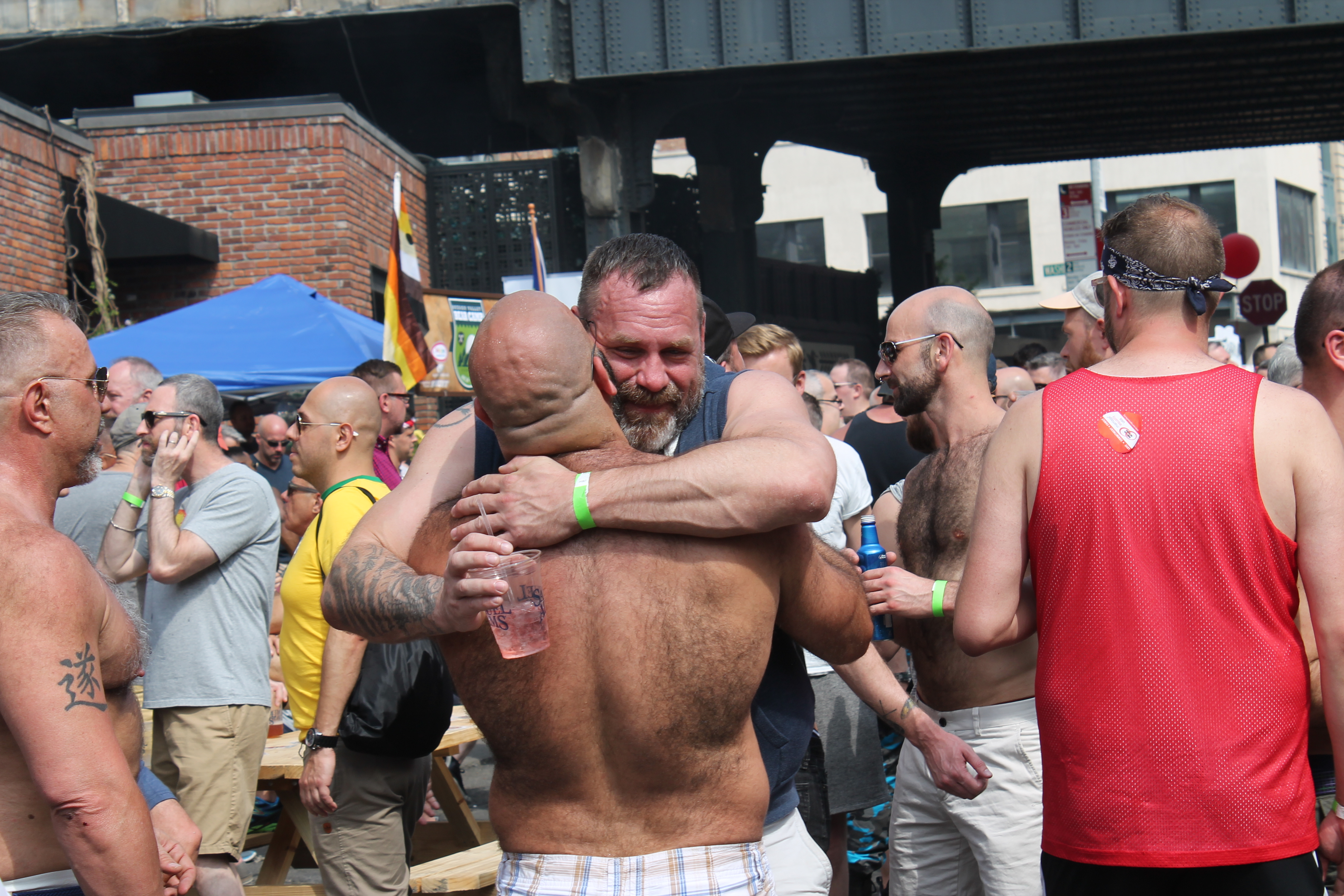 Big bear hug at the Urban Bear Street Fair. To see my other Bear/Leather/Fetish pictures, click here.